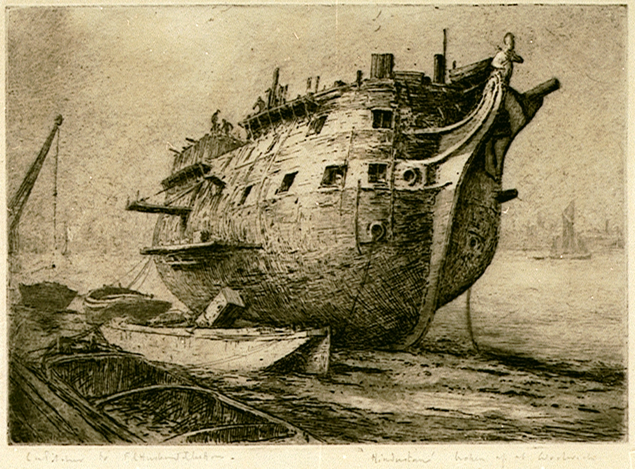 Hindustan broken up at Woolwich See notebook for further details.